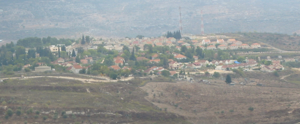 Shavei Shomron from Shomron National Park (Sebastia) to the north.